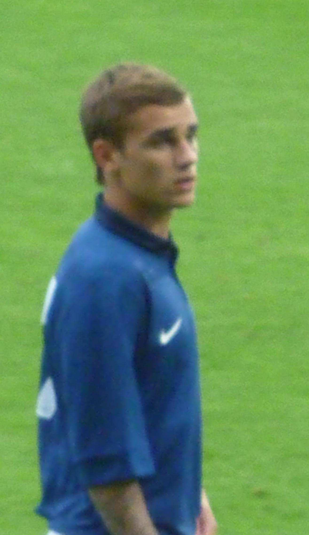 Antoine Griezmann, forward of the French U21 national team. Qualifier against Kazakhstan in Clermont-Ferrand.